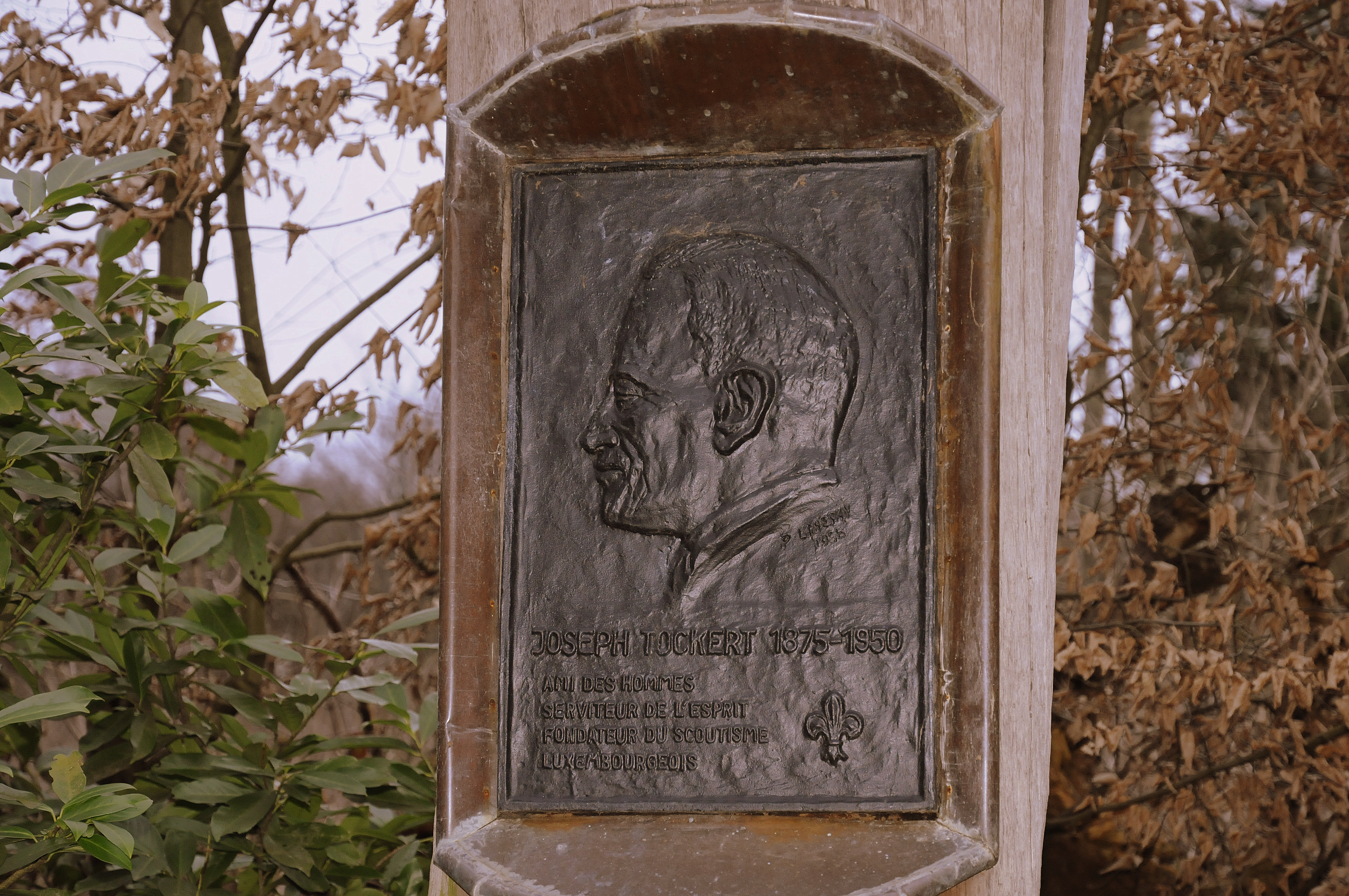 Joseph Tockert (1875-1950). Linguist and founder of the scouting movement in Luxembourg. Memorial on the Gaalgebierg in Esch-sur-Alzette.